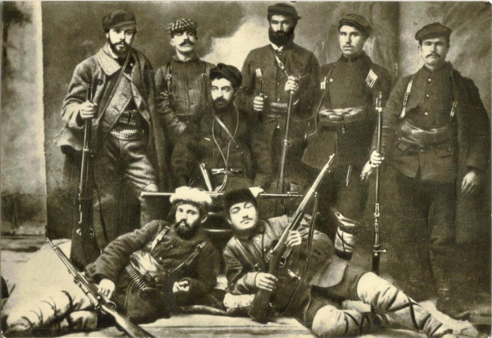 Band of Macedonian-Adrianopolitan Volunteer Corps